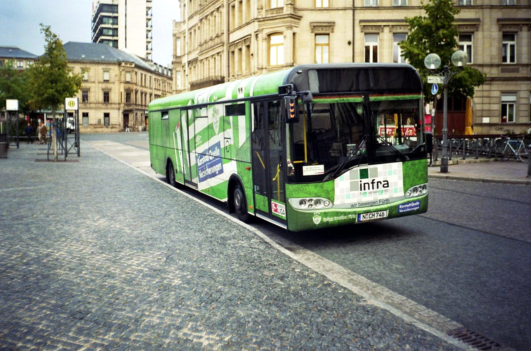 Solaris Urbino 12 bus (N-CM 746) in Germany. Built 2002, Infra Fürth or Schmetterling Reisen GmbH & Co. KG from Geschwand operator.